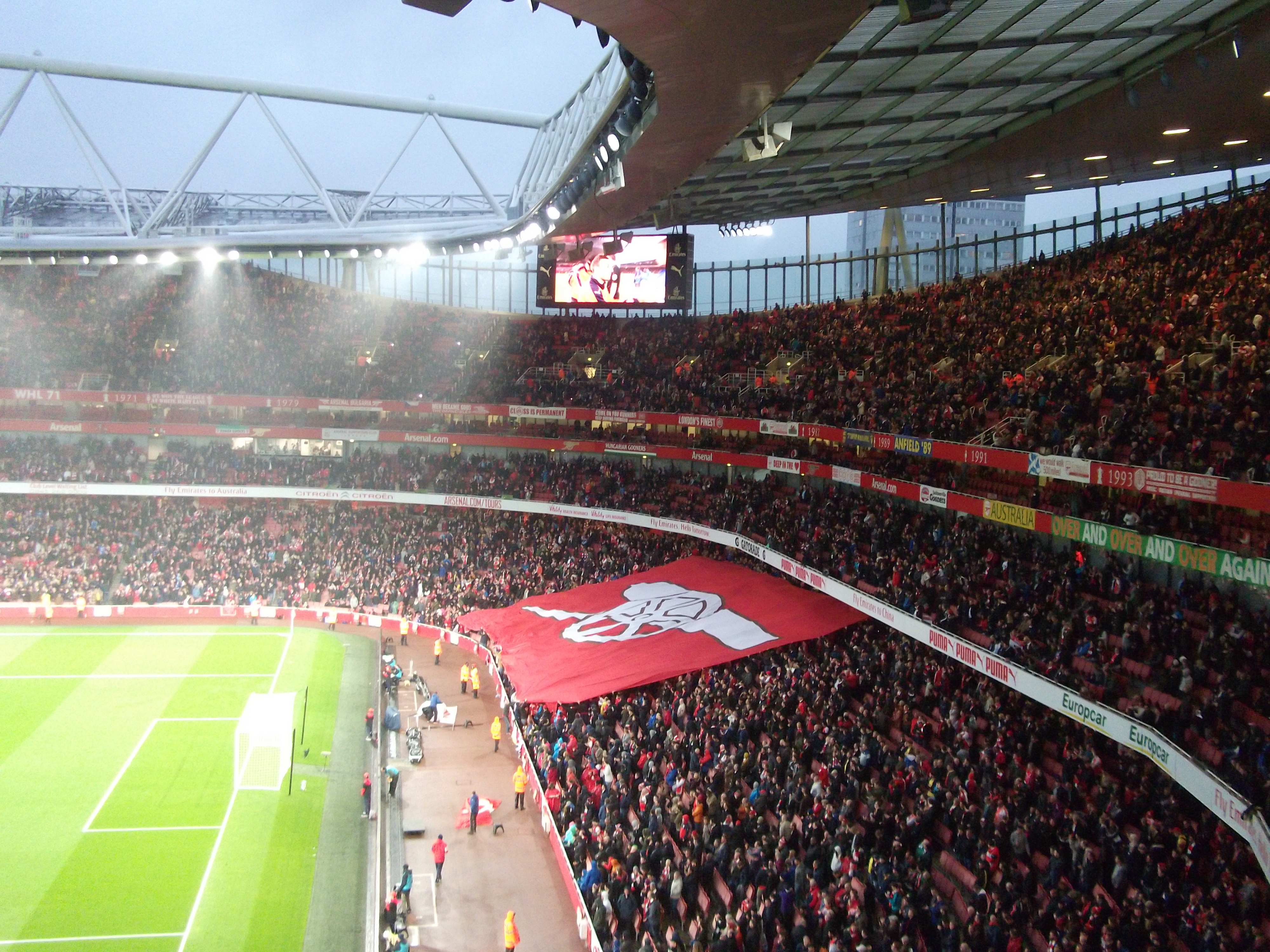 Arsenal FC v Everton FC, 24 Oct 2015